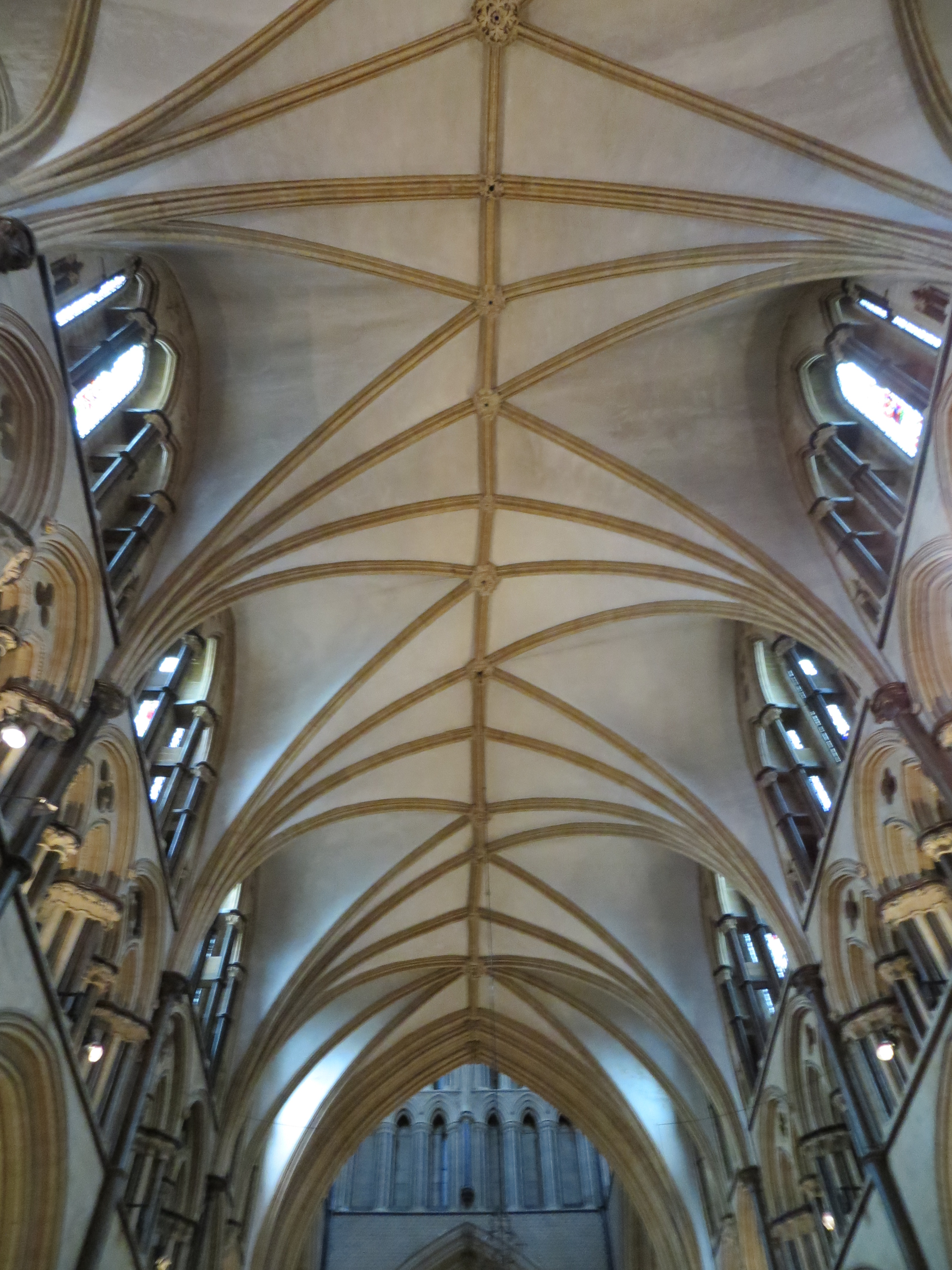 Asymmetric vaulting of the quire of Lincoln Cathedral known as "crazy vaults"